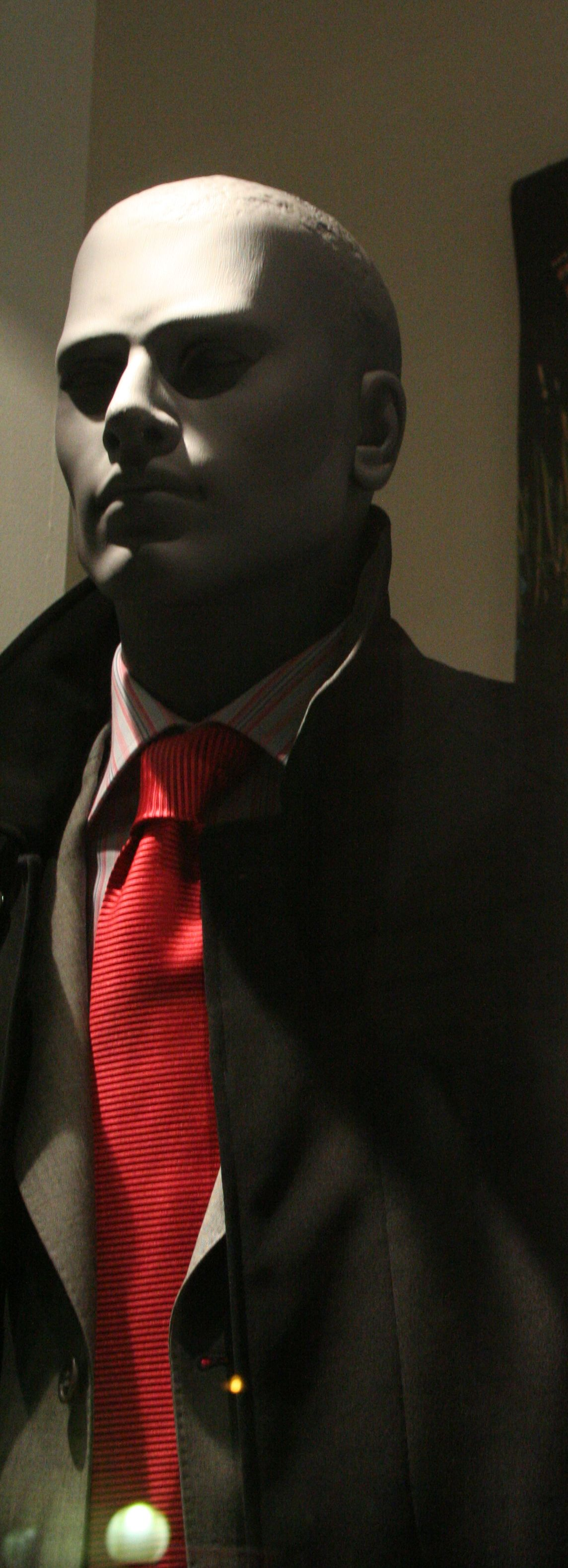 Red tie